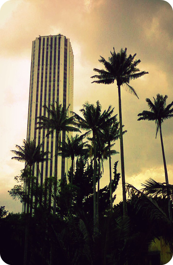 Colpatria beach